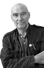 Jon Groom